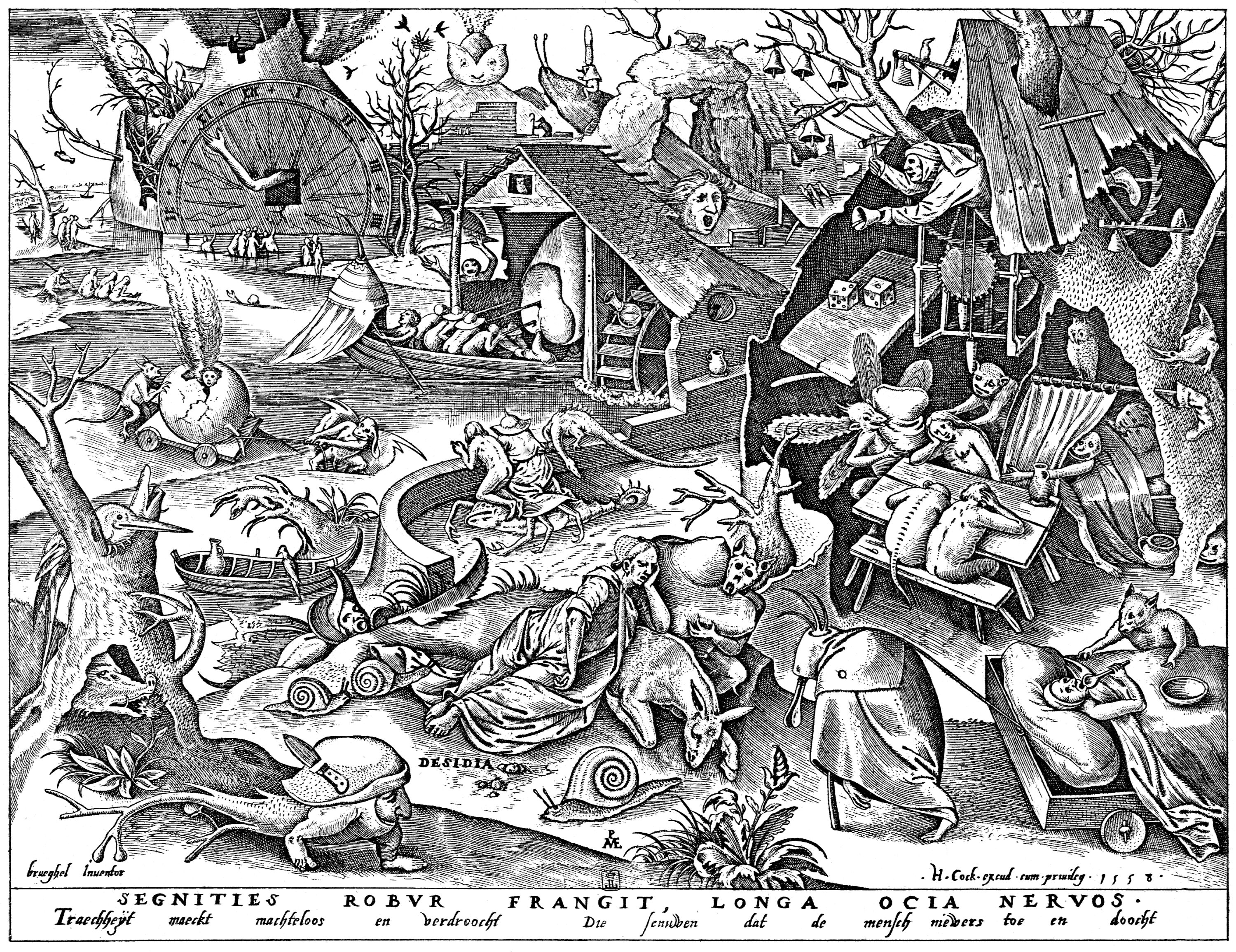 The Seven Vices, also the Seven deadly sins: Greed (Avaritia), Acedia or depression without joy (Disidia), Gluttony (Gula), Envy (Invidia), Wrath (Ira), Pride (Superbia) and Extravagance or Lechery (Luxuria). By Pieter Bruegel, published by Hieronymus Cock. The series is completed by a final depiction of the doom. See also: Brueghel: The Seven Virtues